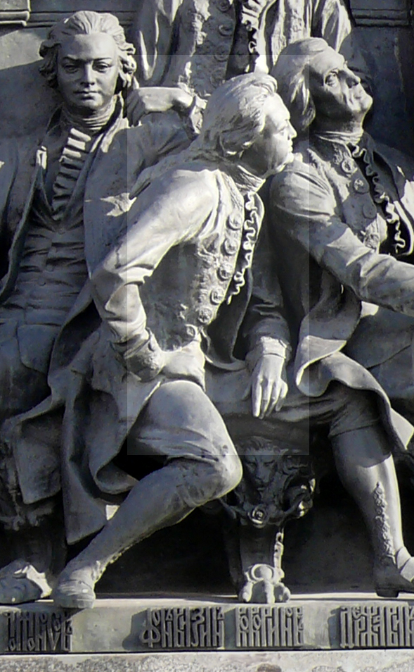 Denis Fonvizin on the Monument «Millennium of Russia» in Veliky Novgorod